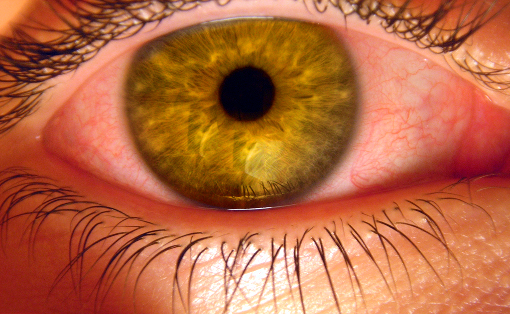 Eye